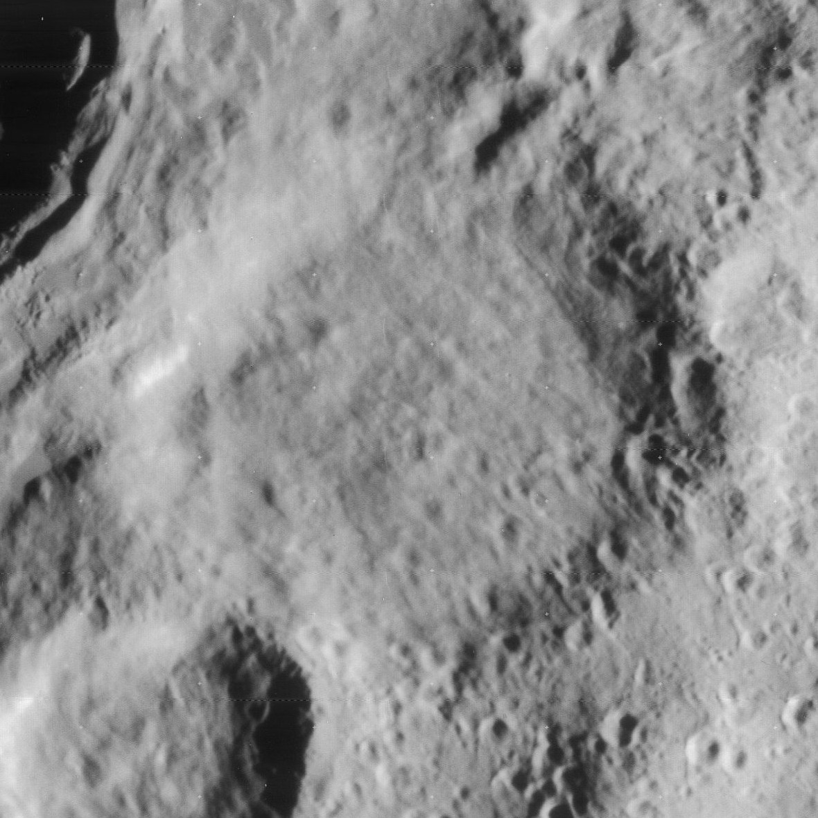 Pictet, on the moon. Part of Tycho crater is in upper left.